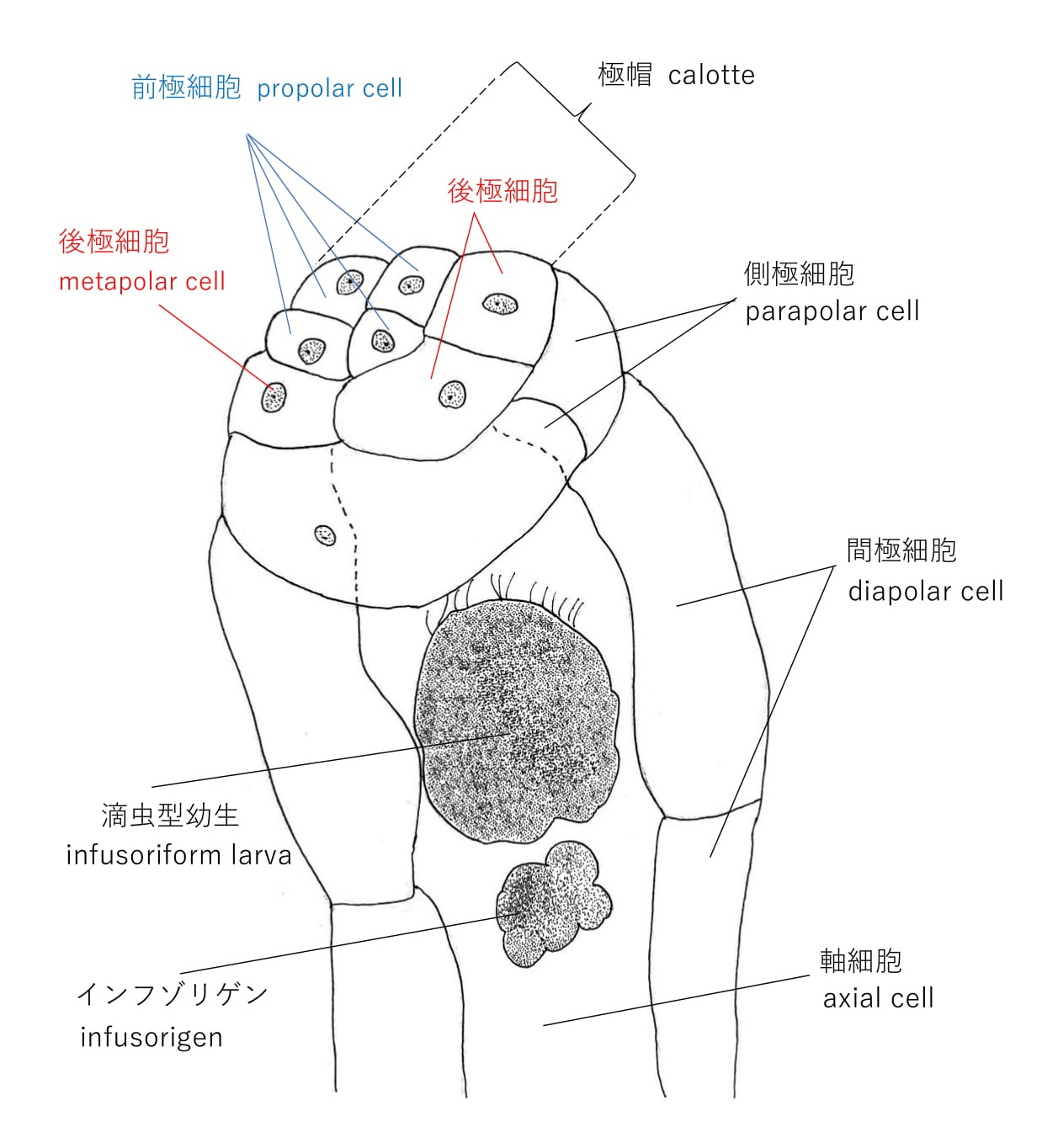 Sketch of Rhombogen head of Dicyema sp. with the part of body.